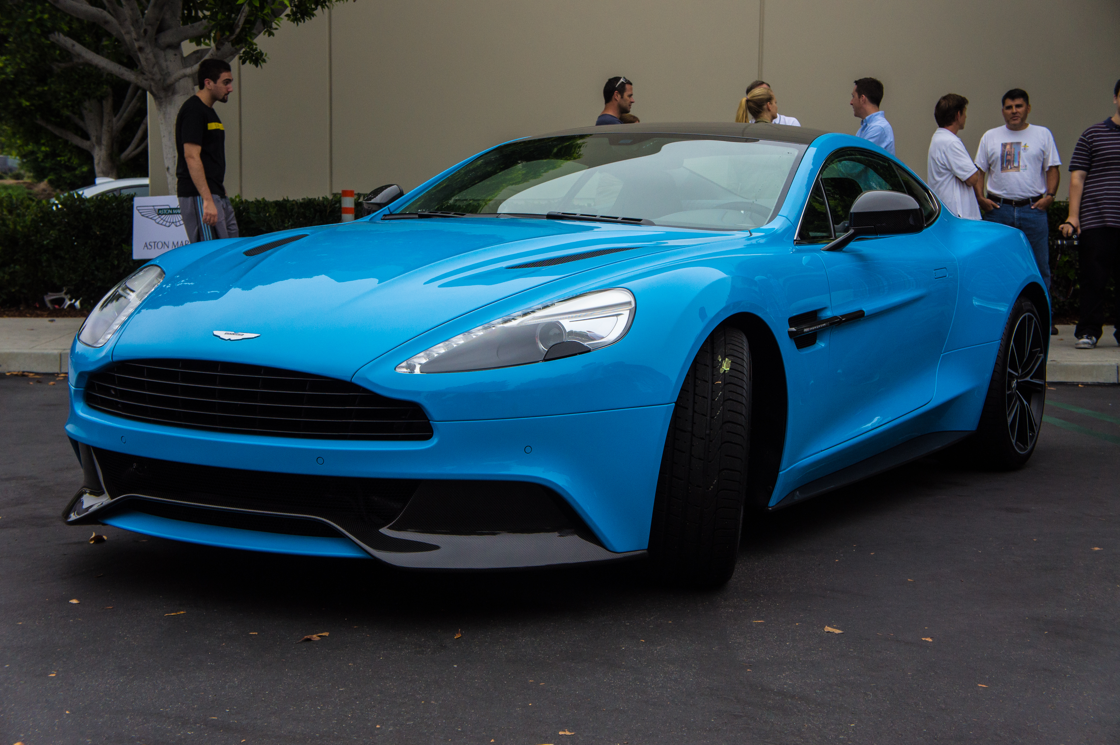 2013 Aston Martin Vanquish. 08/25/2012